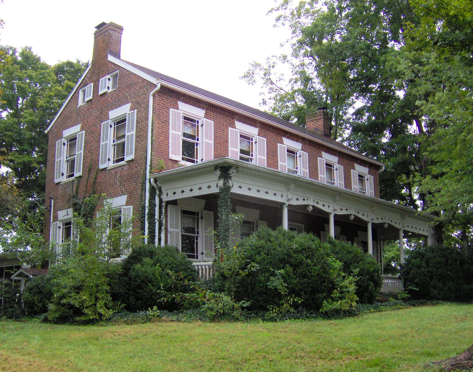 Wheatlands, a plantation house built in 1825, in the Boyds Creek community of Sevier County, Tennessee, USA.